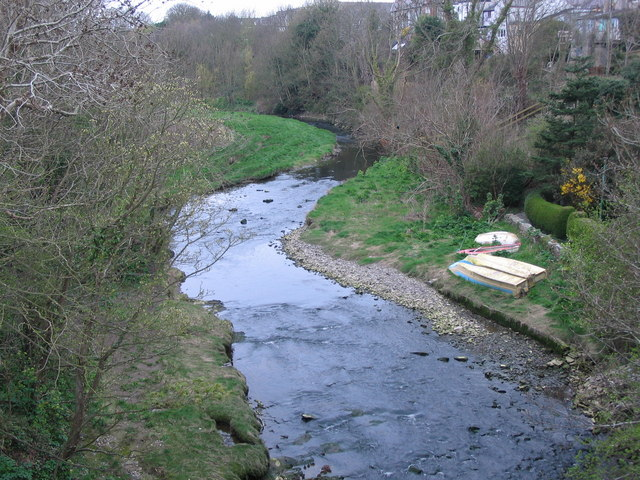 Afon Wygyr, near to Cemaes, Isle of Anglesey/Sir Ynys Mon, Wales. A view looking to the southwest along the Afon Wygyr from Stryd y Bont.